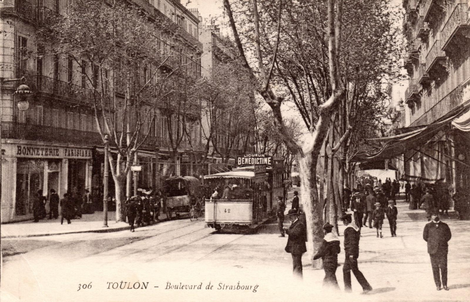 Electric tram in Toulon (France) - vintage postcard published around 1910